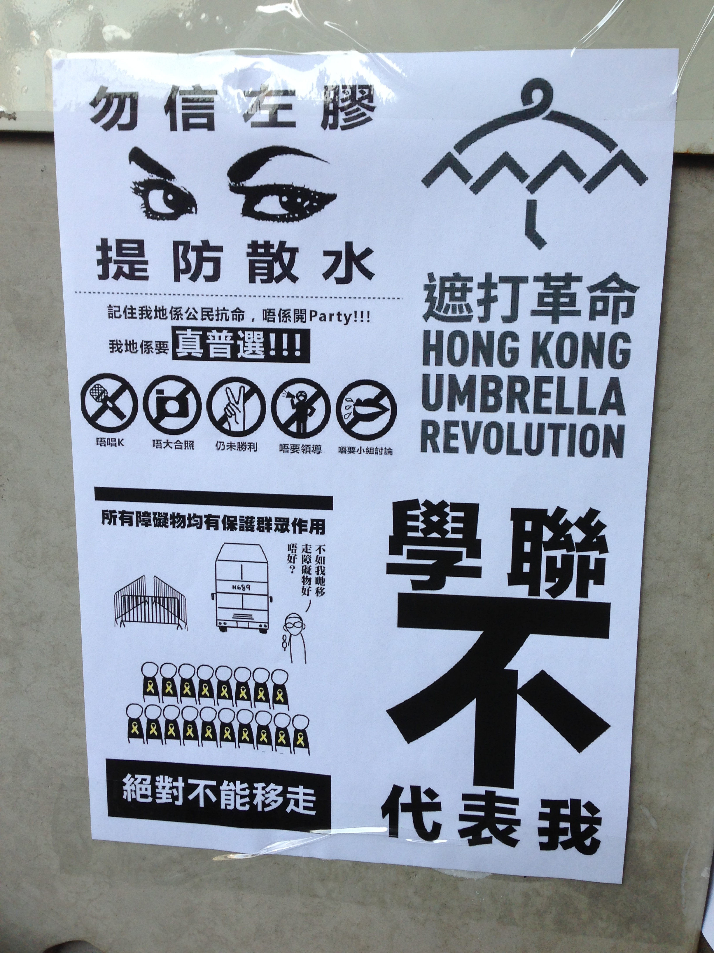 Photo showing poster stating the name of the protest 'Umbrella Revolution'